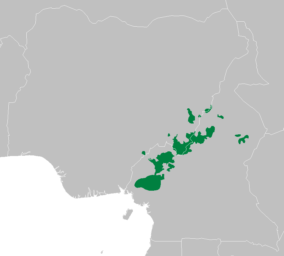 Cameroonian Highlands forests ecoregion map